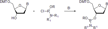 Synthesis of 5'-O-protected nucleoside phosphoramidites, Method 2